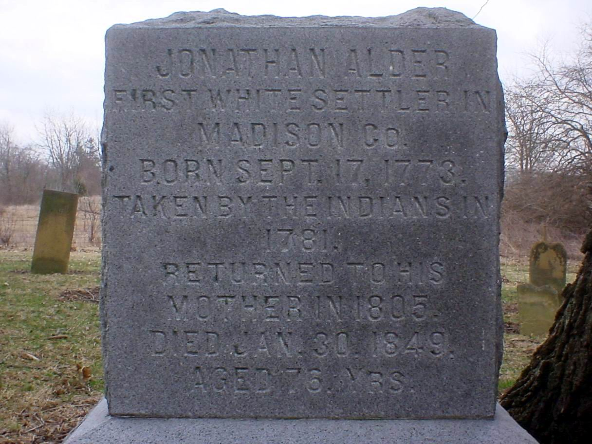 Jonathan Alder's gravestone, photographed March 12, 2009 by Adolphus79.